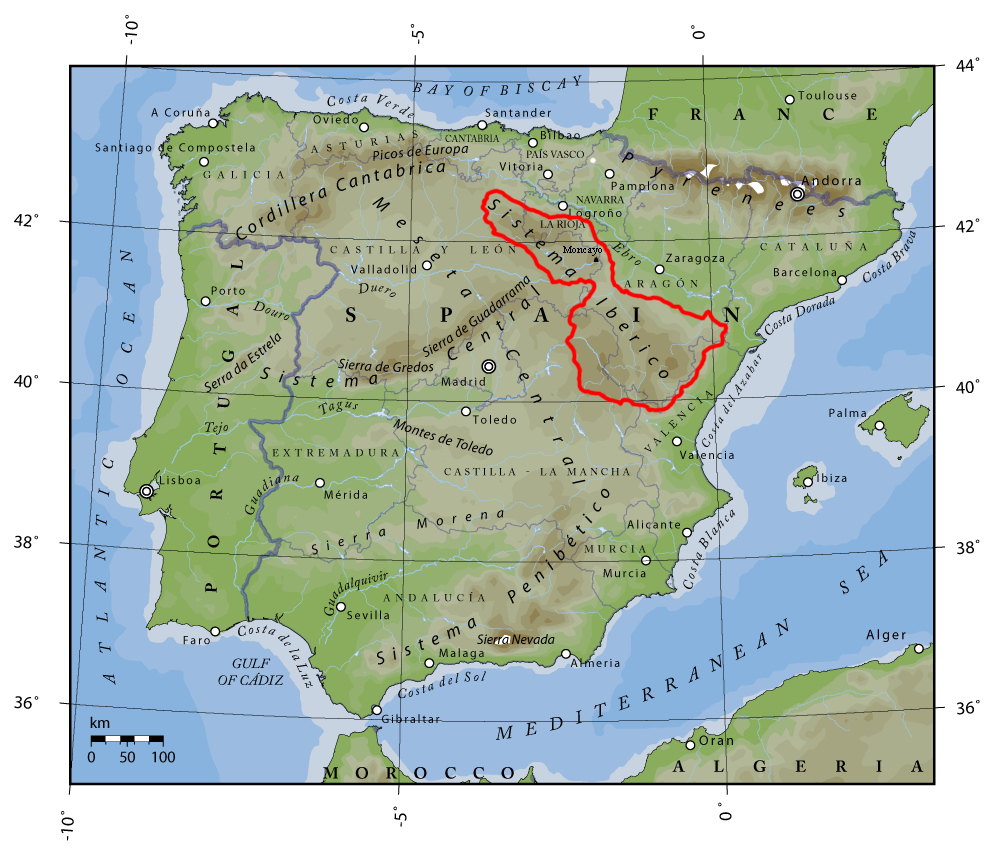 Topographical map of Spain. Author: Bas de Jong Sources: * U.S. National Geophysical Data Center (NGDC) * The Times Atlas of the World. 11th ed. London: Times Books, 2005. * "Spain." Encyclopædia Britannica from Encyclopædia Britannica Online. [Accessed February, 2006]. Sistema Ibérico - November 2008